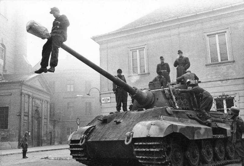 Schwere Panzer-Abteilung 503. Only Tiger II unit to go to Budapest[1]